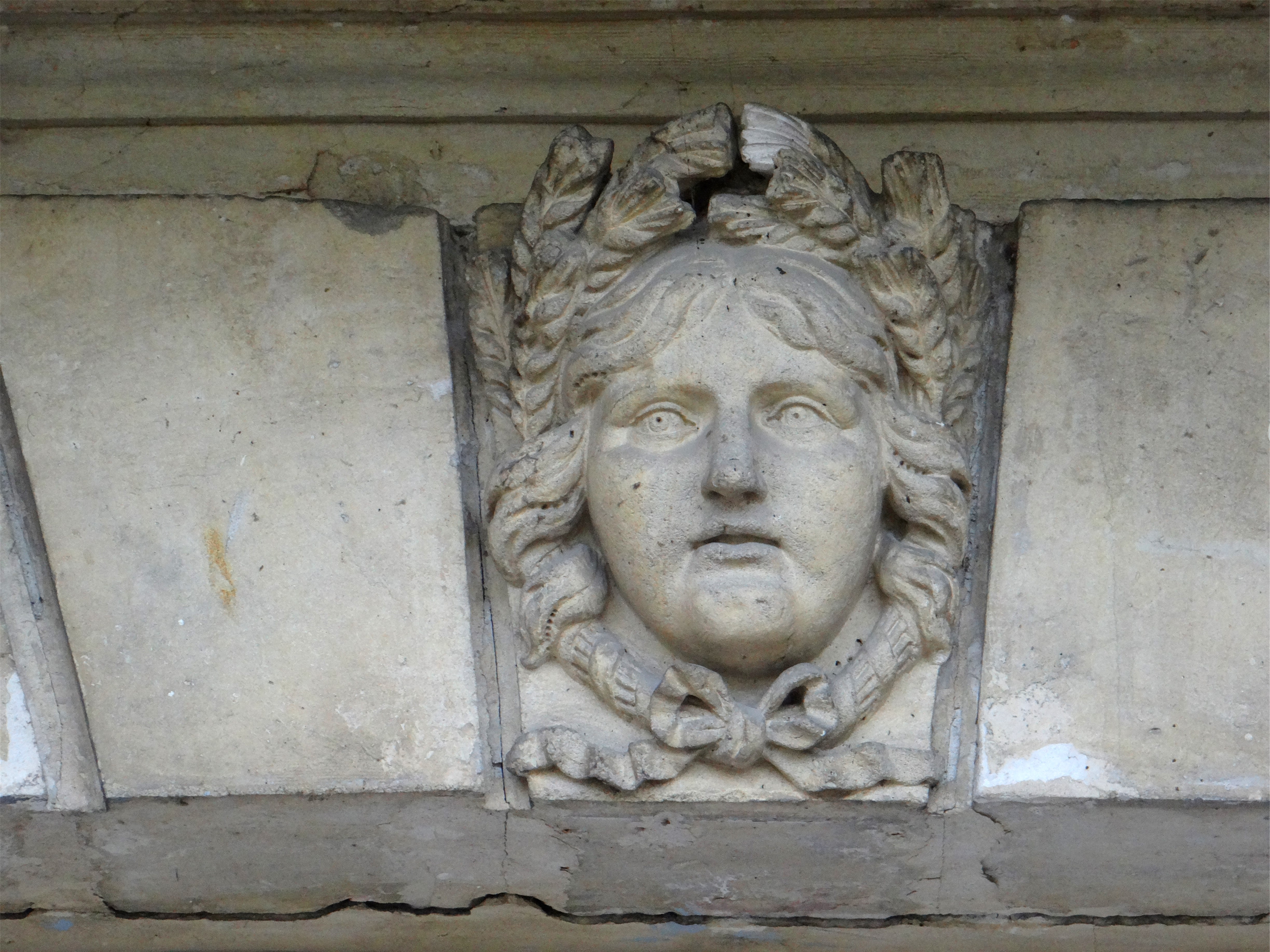 Gargoyle on the window frames.